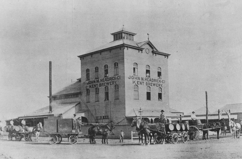 Kent Brewery, Rockhampton, 1895 Horsedrawn carts outside Kent Brewery. JM Headrick & Co. purchased the brewery in 1894, retaining it until 1905. Situated in Bolsover Street, Rockhampton, it operated from ca. 1891 to ca. 1907 (Description supplied with photograph.).